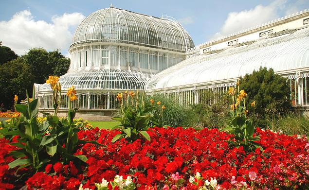 Flower bed, Botanic Gardens, Belfast Vividly-coloured flower bed outside the Palm House.